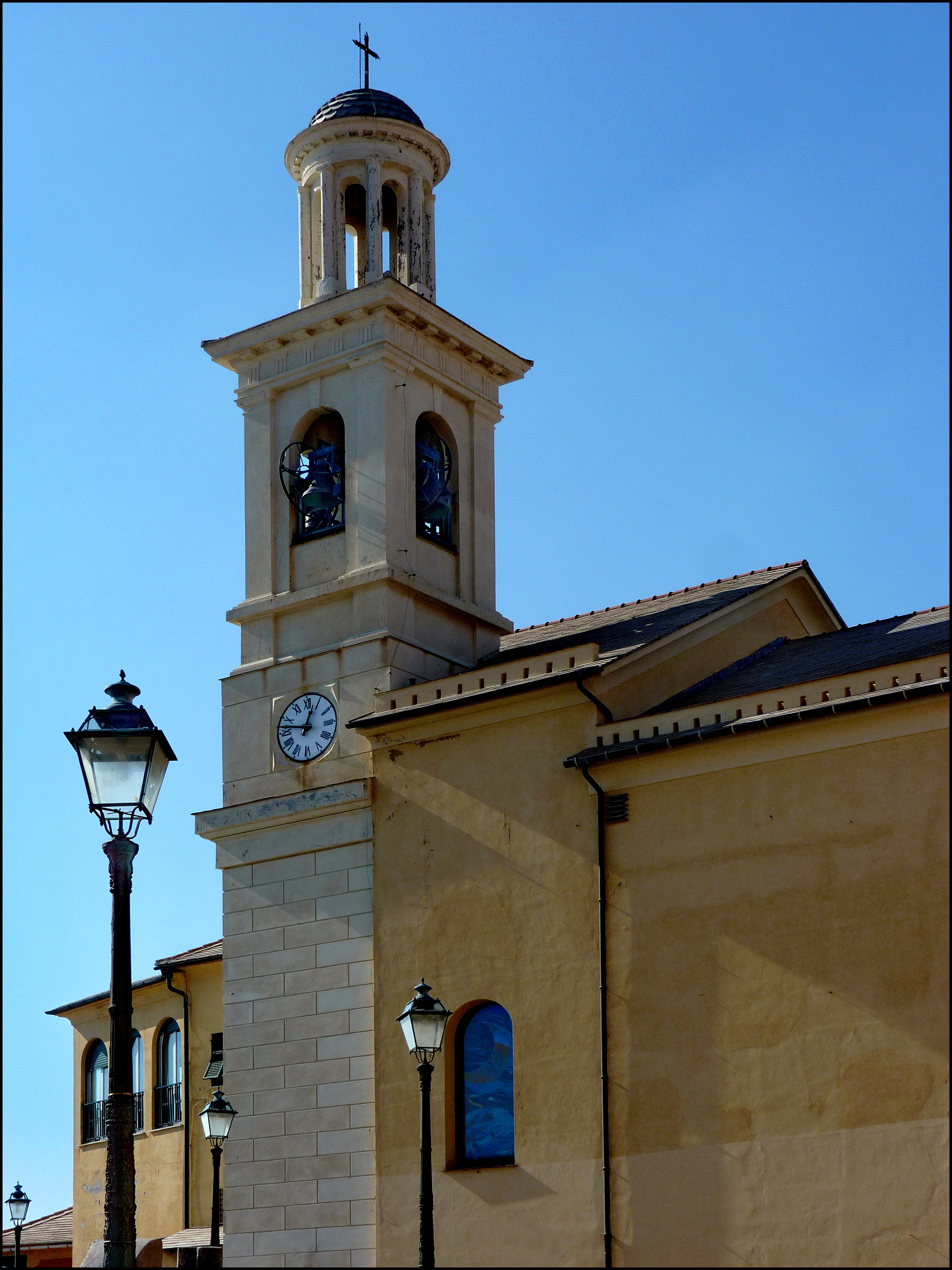 a church and four lamps